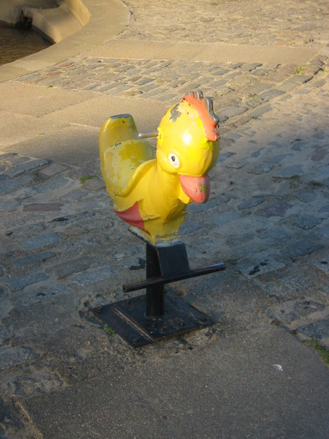 Rocking Duck One of six beside Denburn in Westburn Park.